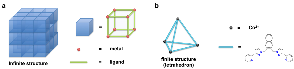 Illustrations of a. metal-organic frameworks and b. supramolecular coordination complexes